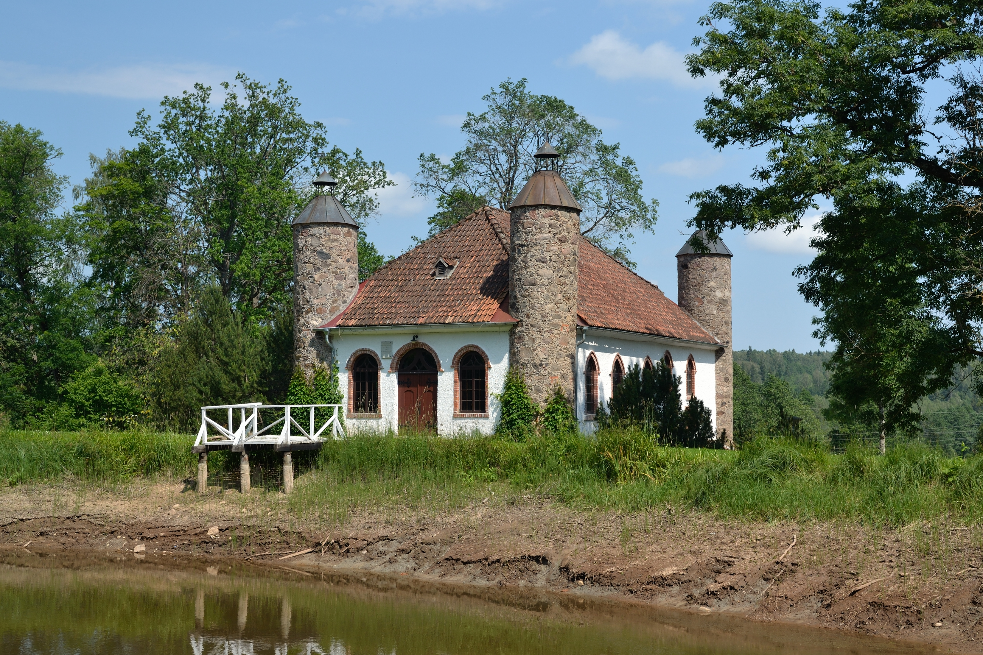 Heimtali manor distillery kitchen.